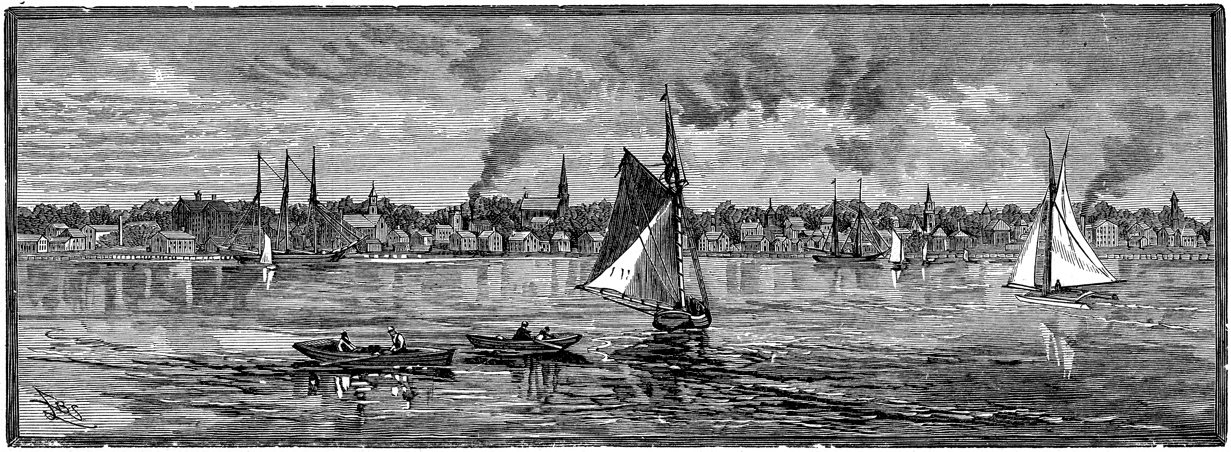 A view of Bristol RI from the harbor. Engraving from The Providence Plantations for 250 Years, Welcome Arnold Greene (1886). page 404